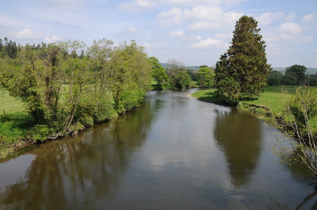 Afon Twyi/River Towy. Afon Twyi/River Towy viewed from Pont ar Towy at Ashfield.